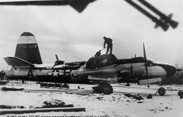 Martin B-26G-5-MA Marauder Serial 43-34348 of the 454th Bombardment Squadron, 323d Bombardment Group, at RAF Beaulieu, England.